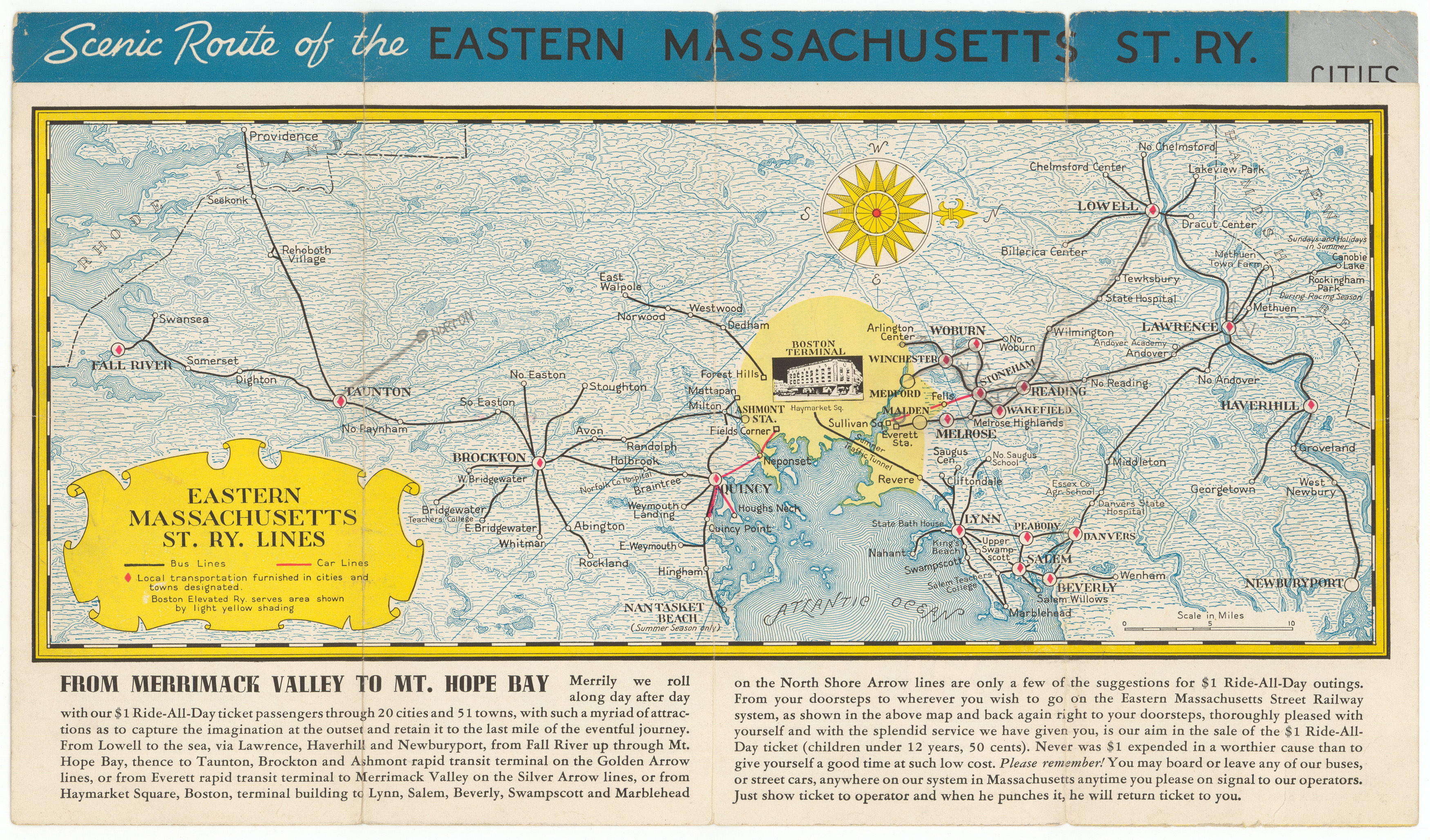 1930s map of Eastern Massachusetts Street Railway streetcar and bus lines. The Sumner Tunnel use indicates it is post-1934.